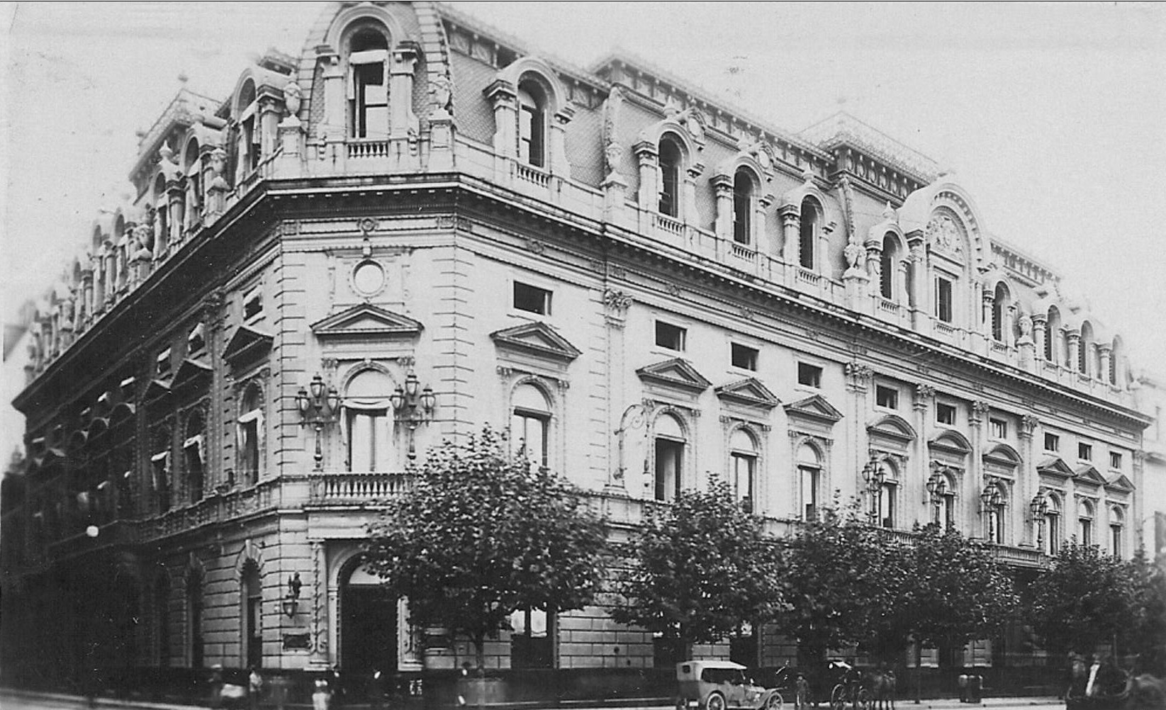 Postcard displaying the Banco de la Nación Argentina head office, located in front of Plaza de Mayo. The facade looks anew after the remodelling by Arquitect Büttner in 1910. This building would be later demolished to build the current Bank in 1944.